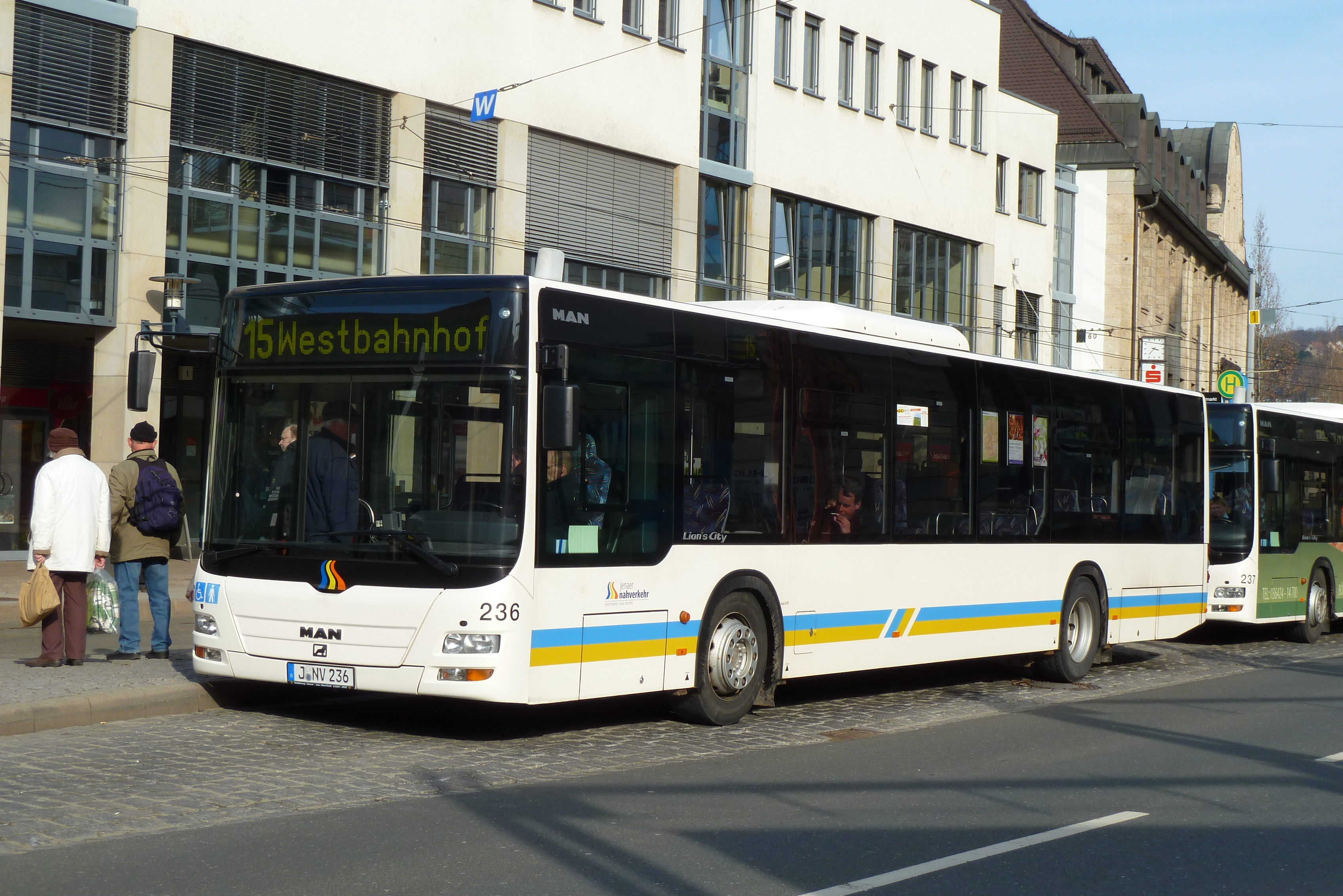 MAN Lion's City bus of the Jena city transport company on line 15 (Westbahnhof-Rautal) at the station city centre/Holzmarkt in Jena